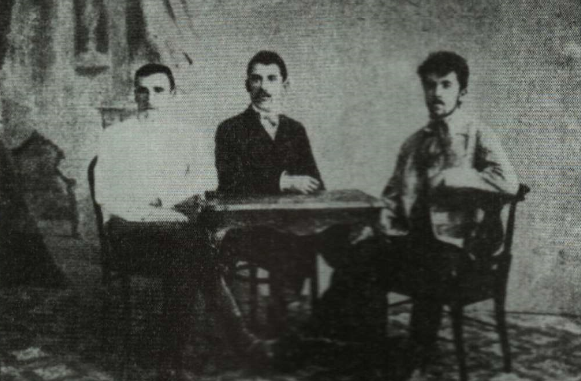 Stamen Panchev, Kotso Hristov and Nikola Rakitin